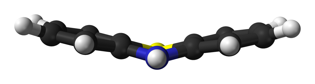 Ball-and-stick model of the phenothiazine molecule. Side-on view highlights the aplanarity of the molecule. X-ray diffraction data from J. J. H. McDowell (January 1976). "The crystal and molecular structure of phenothiazine". Acta. Cryst. 'B32' (1): 5-10.